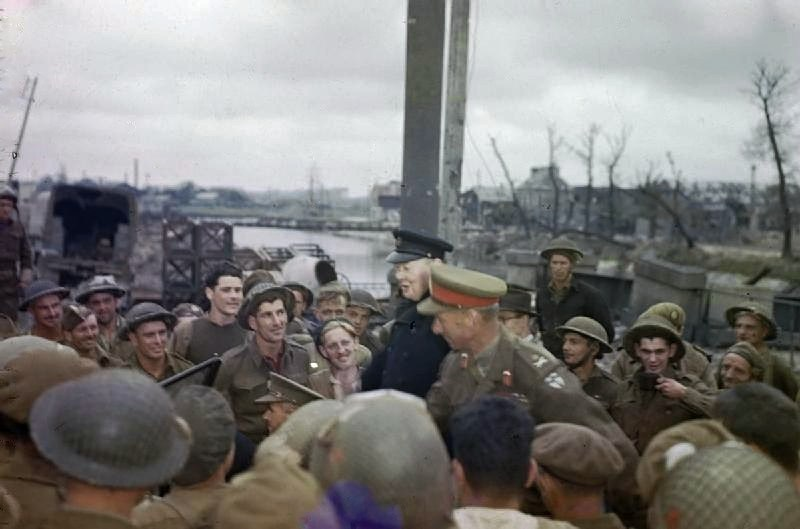 The Visit of the Prime Minister, Winston Churchill To Caen, Normandy, 22 July 1944 The Prime Minister, the Rt Hon Winston Churchill, MP, standing in a staff car, talking to British and Canadian troops at the 'Winston' bridge over the River Orne. With the Prime Minister is the Commander of the British 2nd Army, Lieutenant General Sir Miles Dempsey.